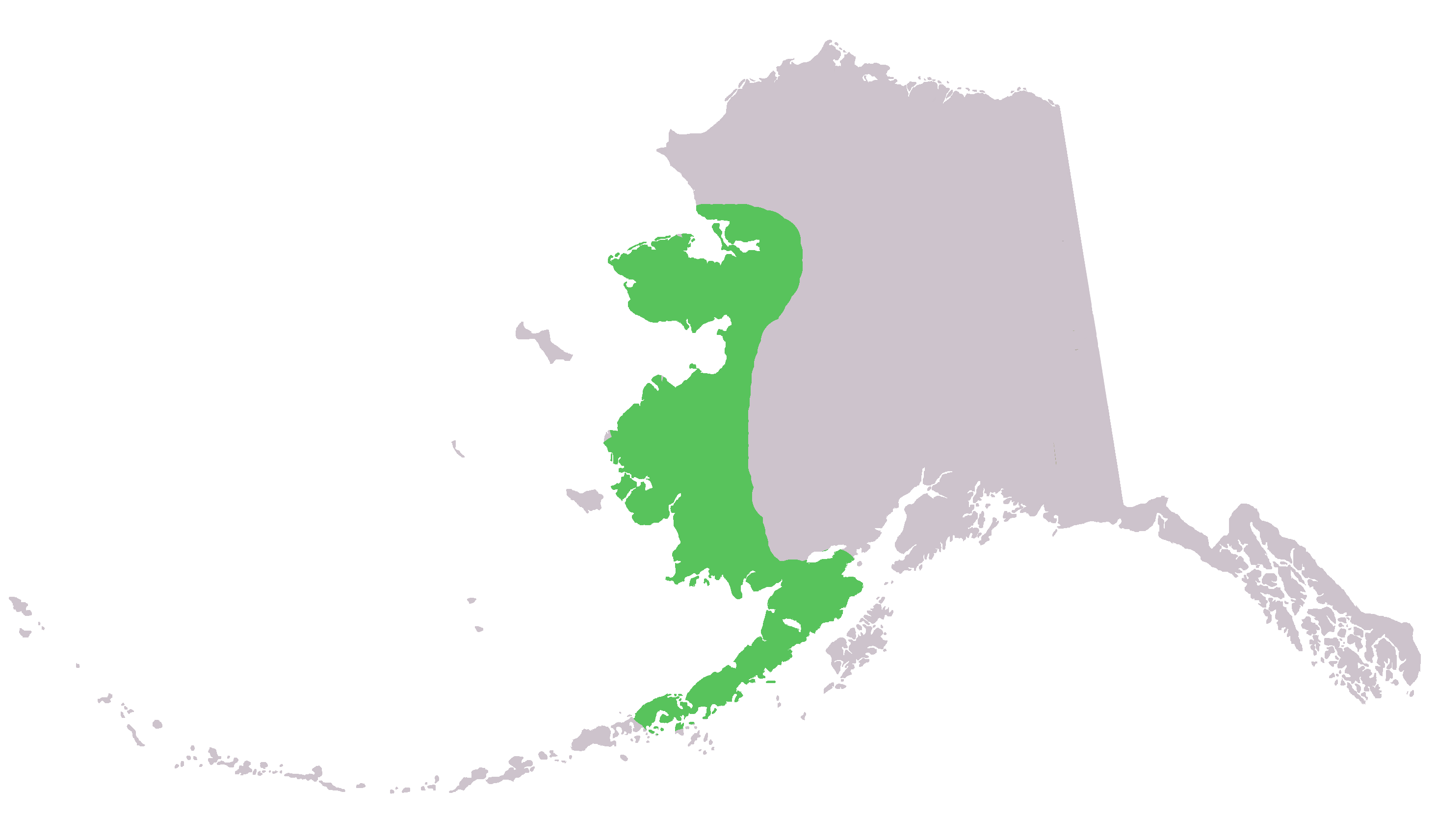 Range of Lepus othus in Alaska